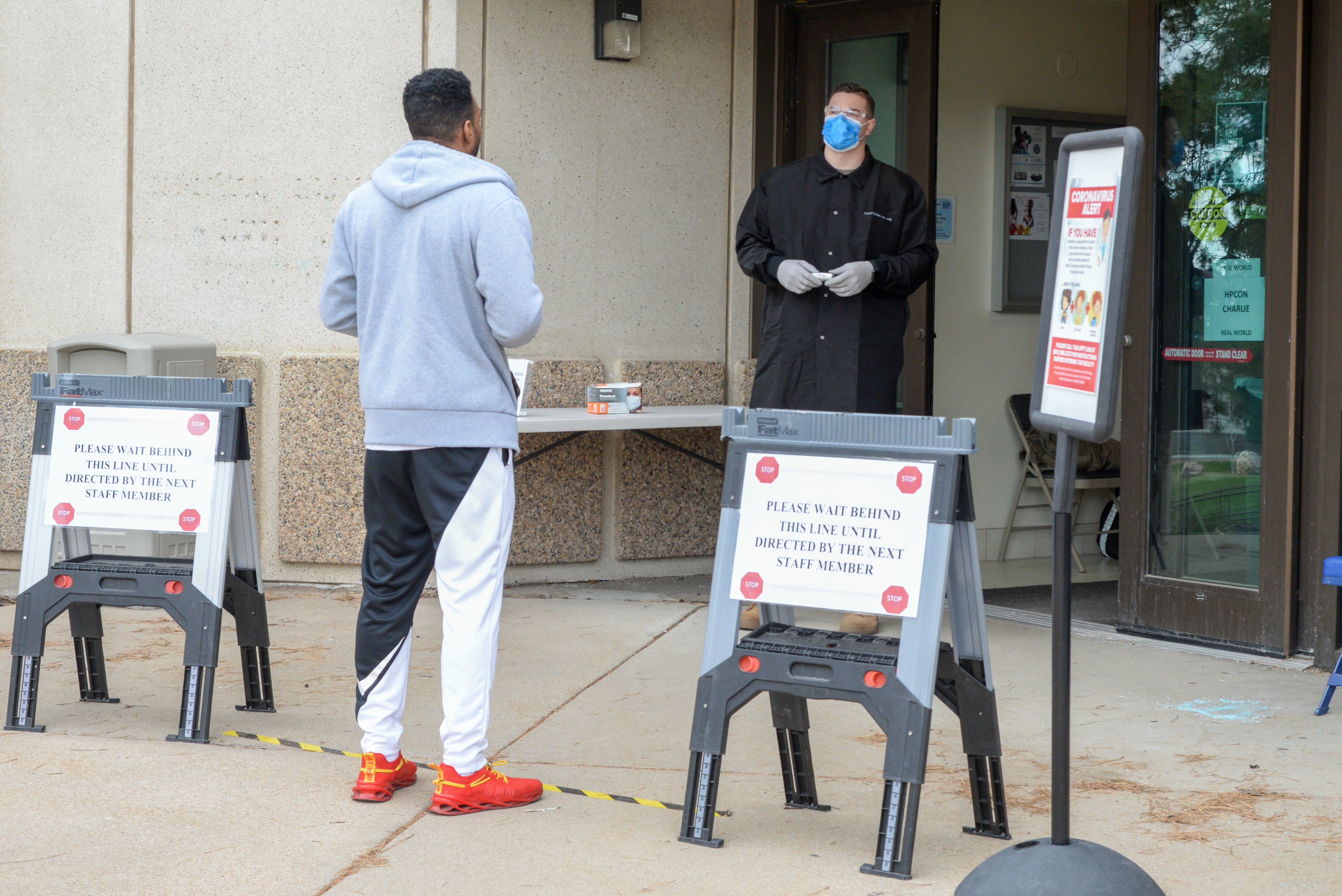 Airman 1st Class Kyle Larson, a medical technician with 75th Medical Group, screens an incoming patient's temperature before entering the Hill Air Force Base, Utah medical clinic March 31, 2020. (U.S. Air Force photo by Cynthia Griggs)